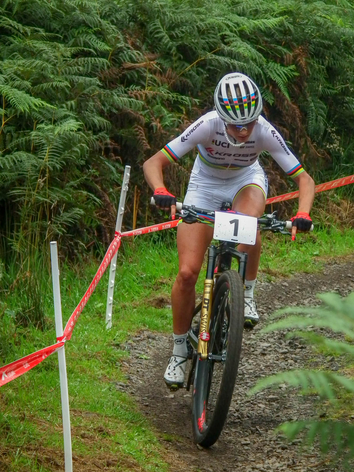 2018 European Mountain Bike Championships